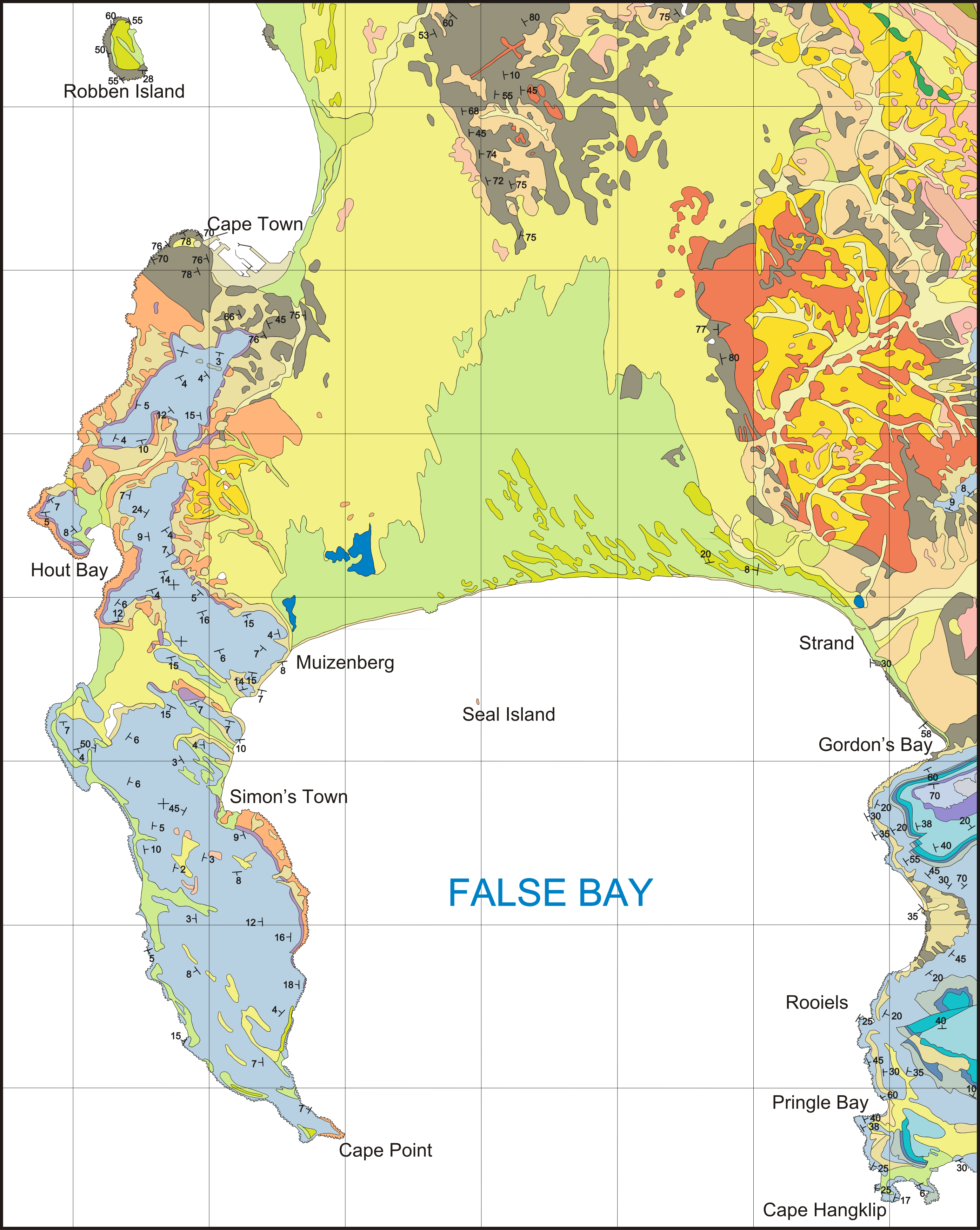 Geological map of the Cape Peninsula and False Bay based on data from Geological Survey Map 3318